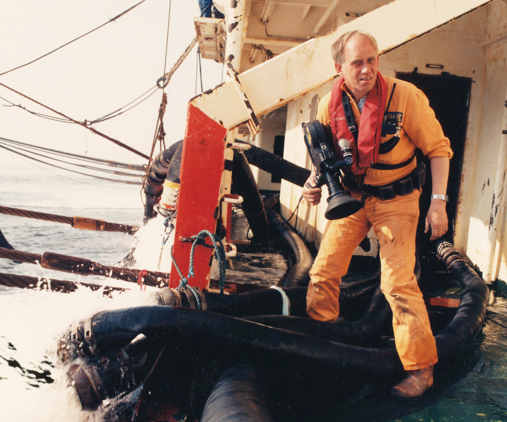 Dutch maritime film-maker Pim Korver on board the Herald of Free Enterprise